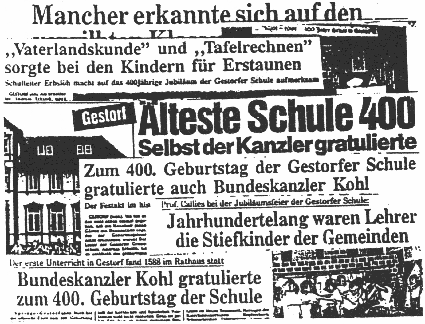 Press review - Collage for the 400th anniversary of the school in Gestorf - Lower Saxony - Hannover Region. Facsimile from the School chronicle Gestorf, 1912 - 1991, State Library of Lower Saxony, Hannover